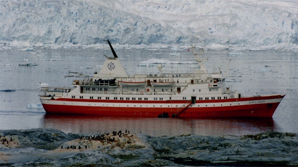 Glacier and MS Explorer in Antarctica with penguins. MS Explorer sank on 23 November 2007 after hitting an iceberg in the Bransfield Strait.